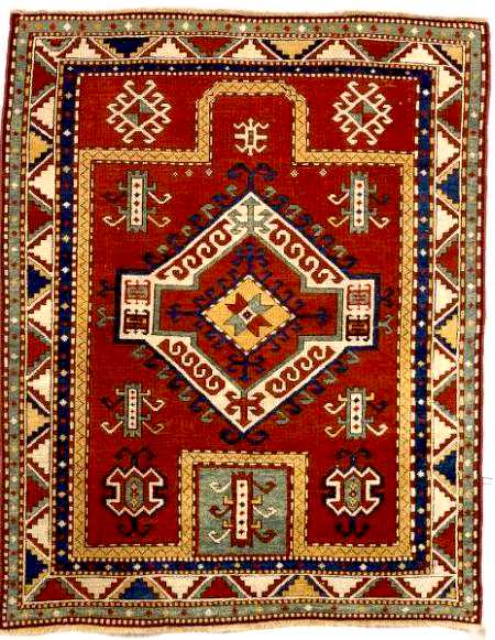 Azerbaijanian carpet "Fakhralo" from Kazakh.